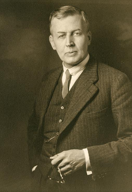 Prof. Jan Duyvendak, Prof. Sinology at Leiden University (the Netherlands)